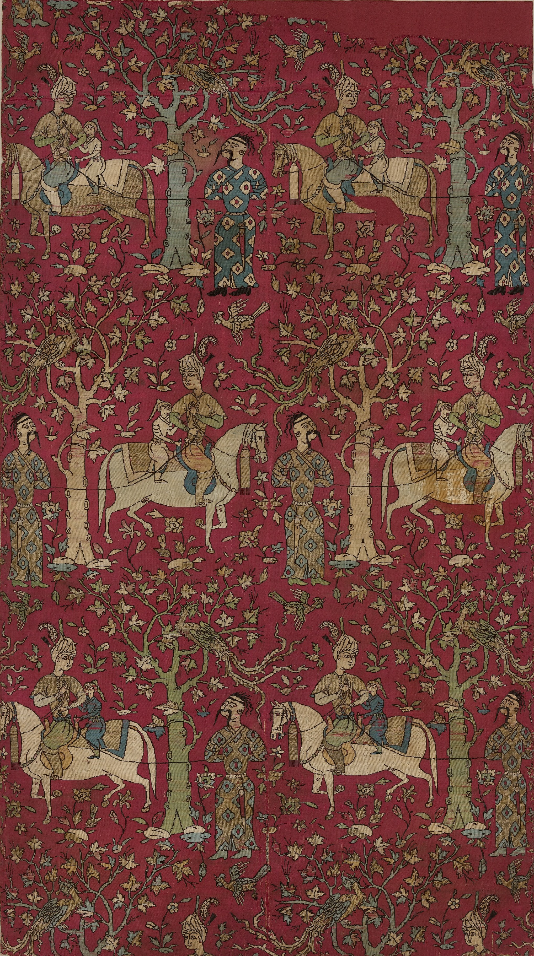 "Safavid Courtiers Leading Georgian Captives". A textile panel of Persian origin (silk, metal wrapped thread; lampas) from the Metropolitan Museum of Art, showing the Safavid army and the Georgian captives seized during the military campaigns between 1540 and 1553.